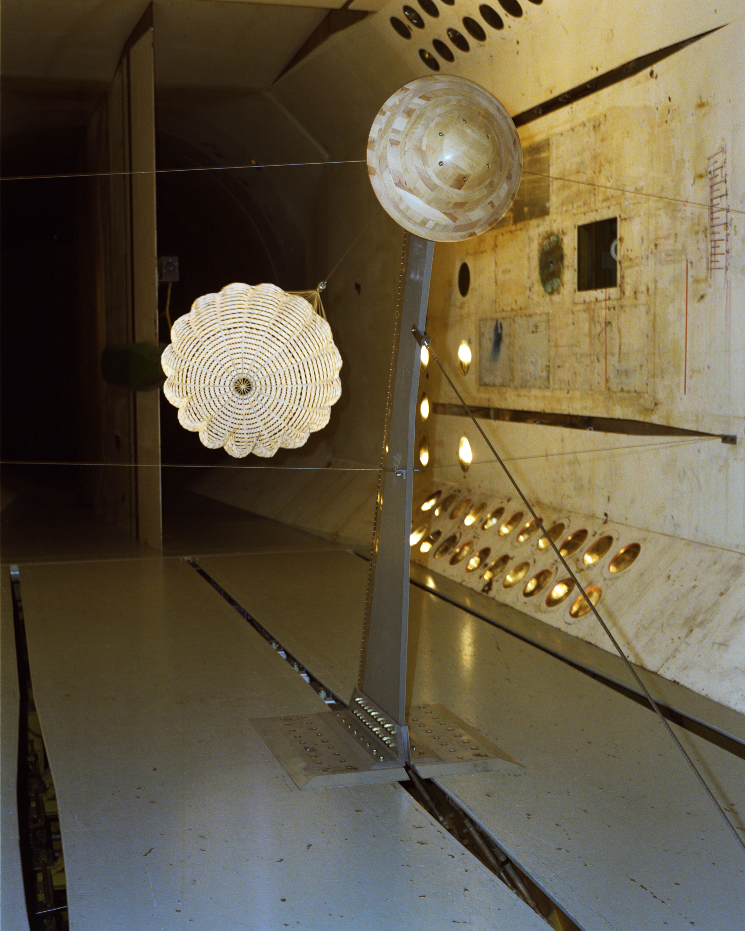 A parachute for the Galileo spacecraft is tested in a wind tunnel. Galileo consisted of an orbiter and an atmosphere probe that descended into Jupiter's atmosphere on a parachute after being braked by a heat shield.